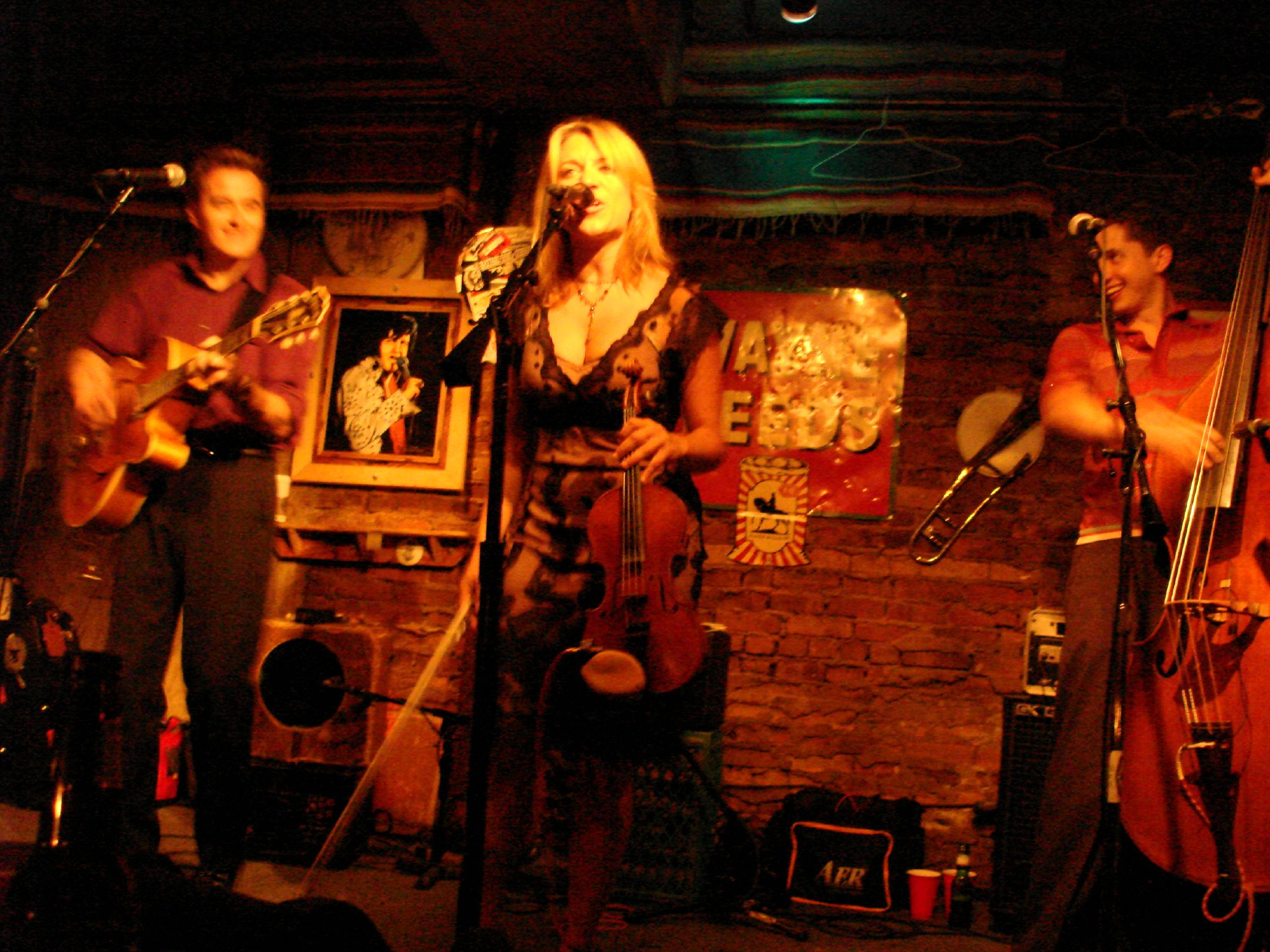 Elana James and the Continental Two performing at New York's Rodeo Bar in 2007.Elana James Trio @ The Rodeo Bar 052507-021